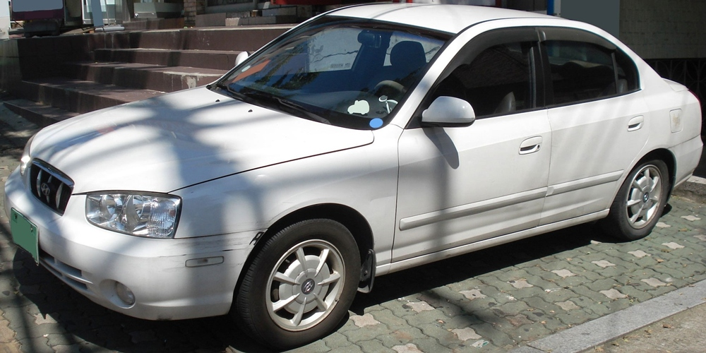 Hyundai Avante XD